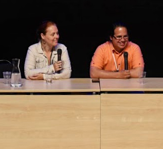 Elio Garcia and Linda Antonsson, authors of The World of Ice and Fire, at Archipelacon.